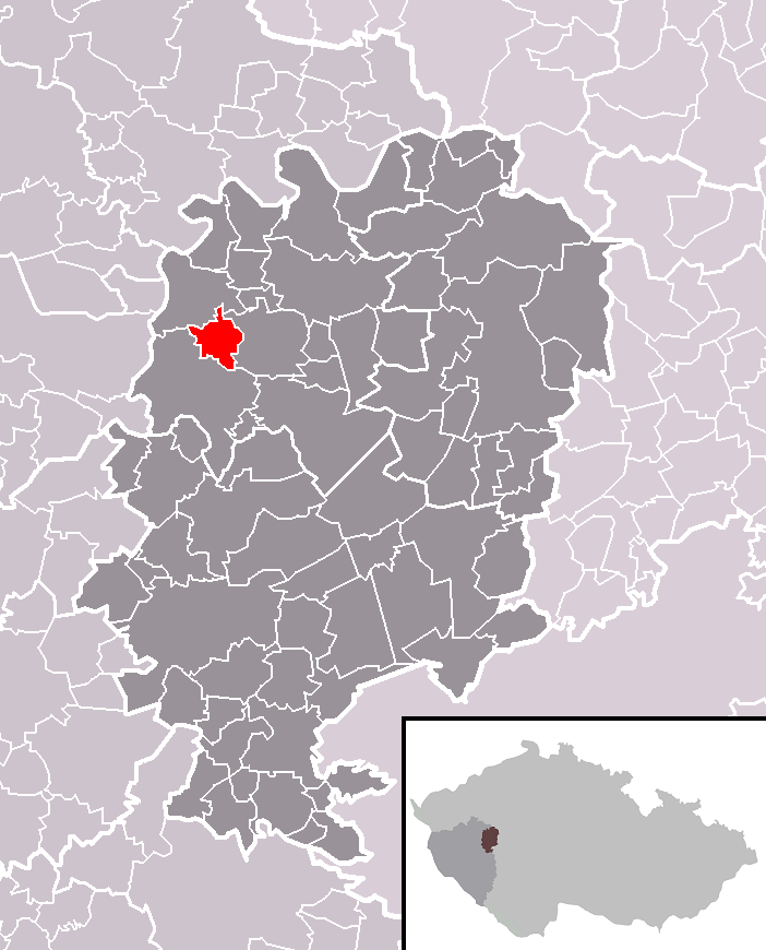 Location of Újezd u Svatého Kříže municipality within Rokycany District and within identical administrative area of Rokycany as a Municipality with Extended Competence.